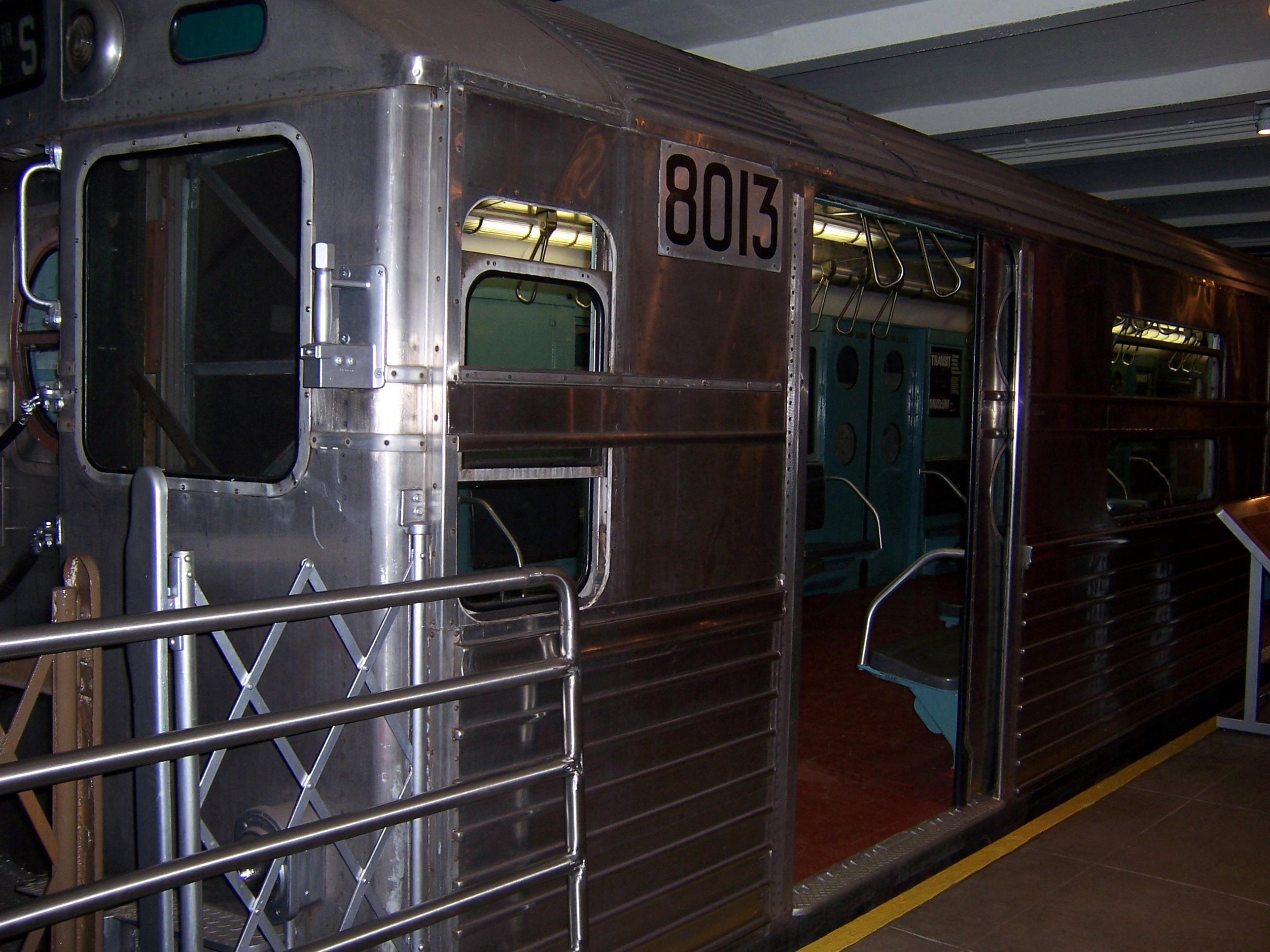 Taken by self at New York Transit Museum